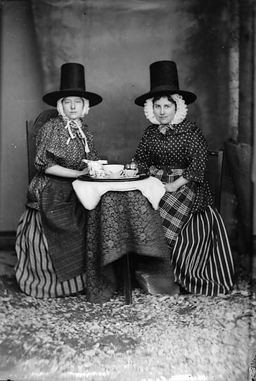 1 negative : glass, wet collodion, b&w ; 11 x 16.5 cm.